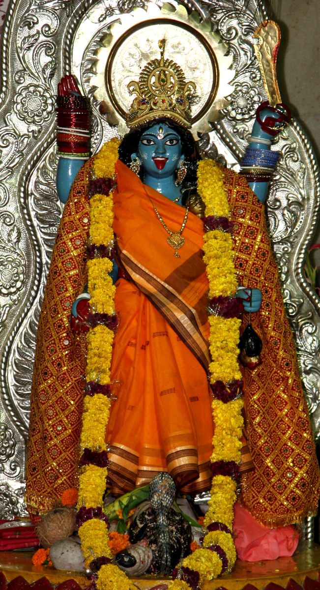 Photograph of the Goddess Kali Mata statue at the Shiv-Kali Temple at Chittranjan Park (C.R.Park), New Delhi